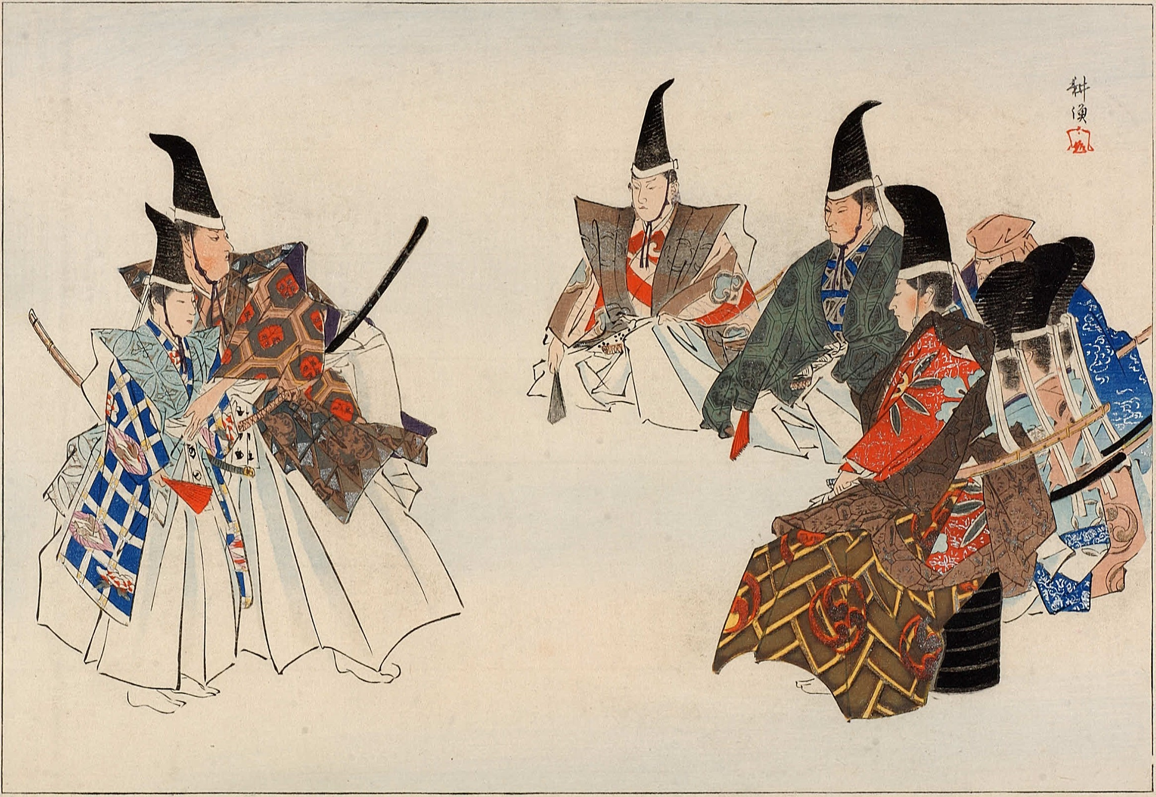 Scene from Nô-play "Shichiki ochi"